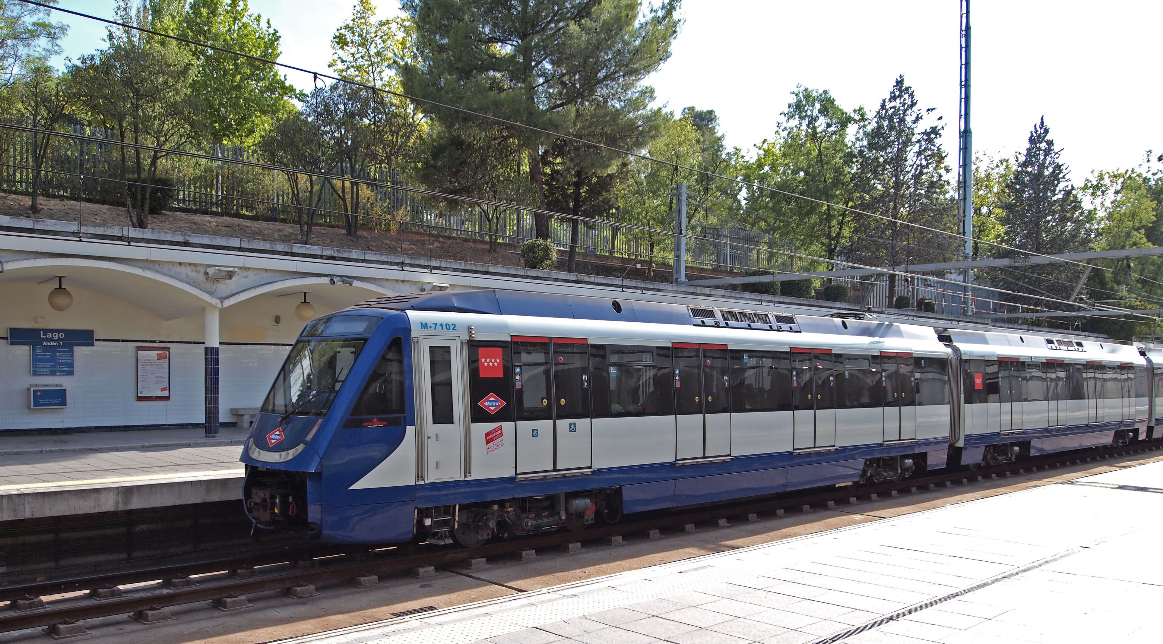 Lago metro station in Madrid. This photograph was taken with a Olympus E-PL1.